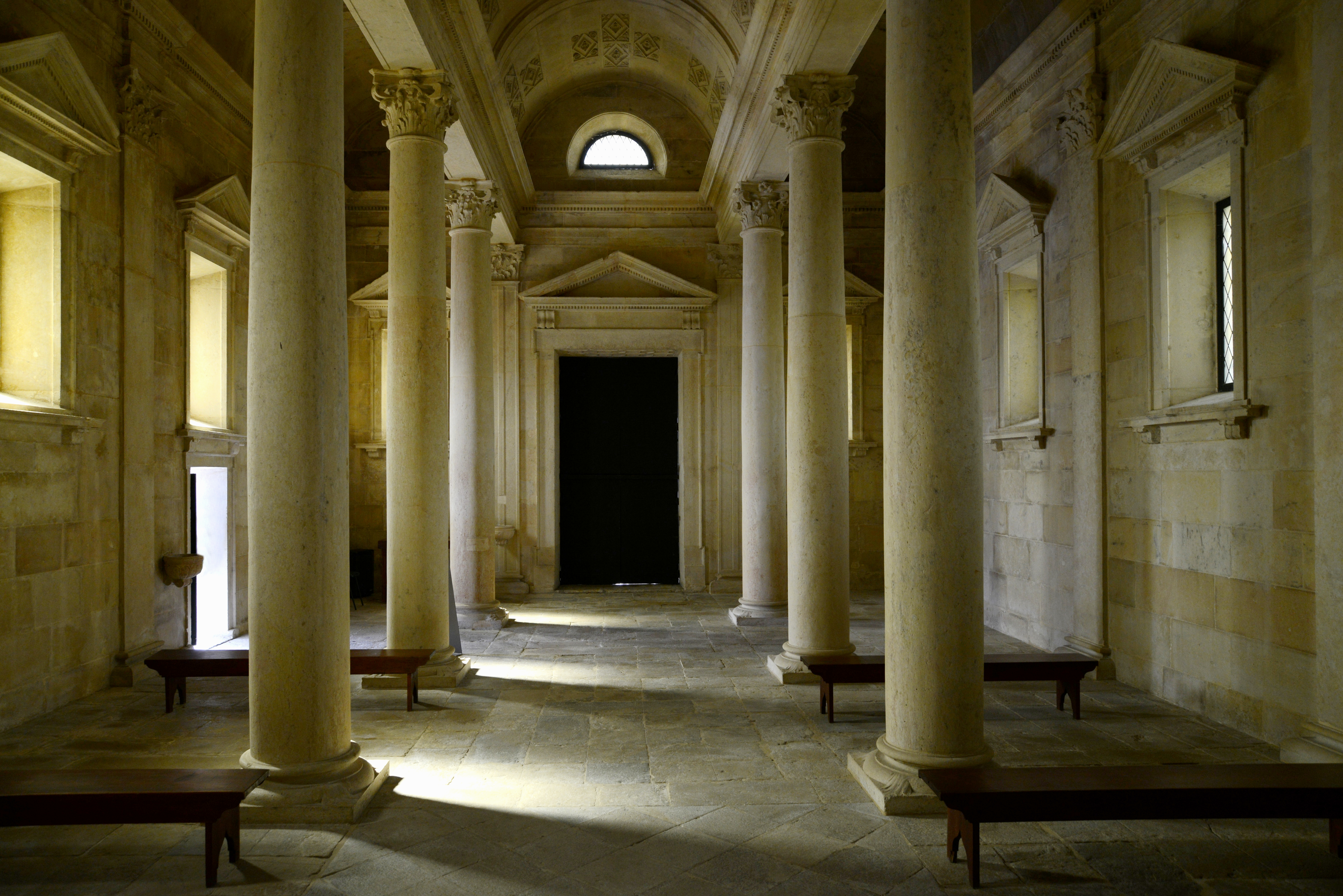 Ermida de Nossa Senhora da Conceição. Tomar, Portugal.